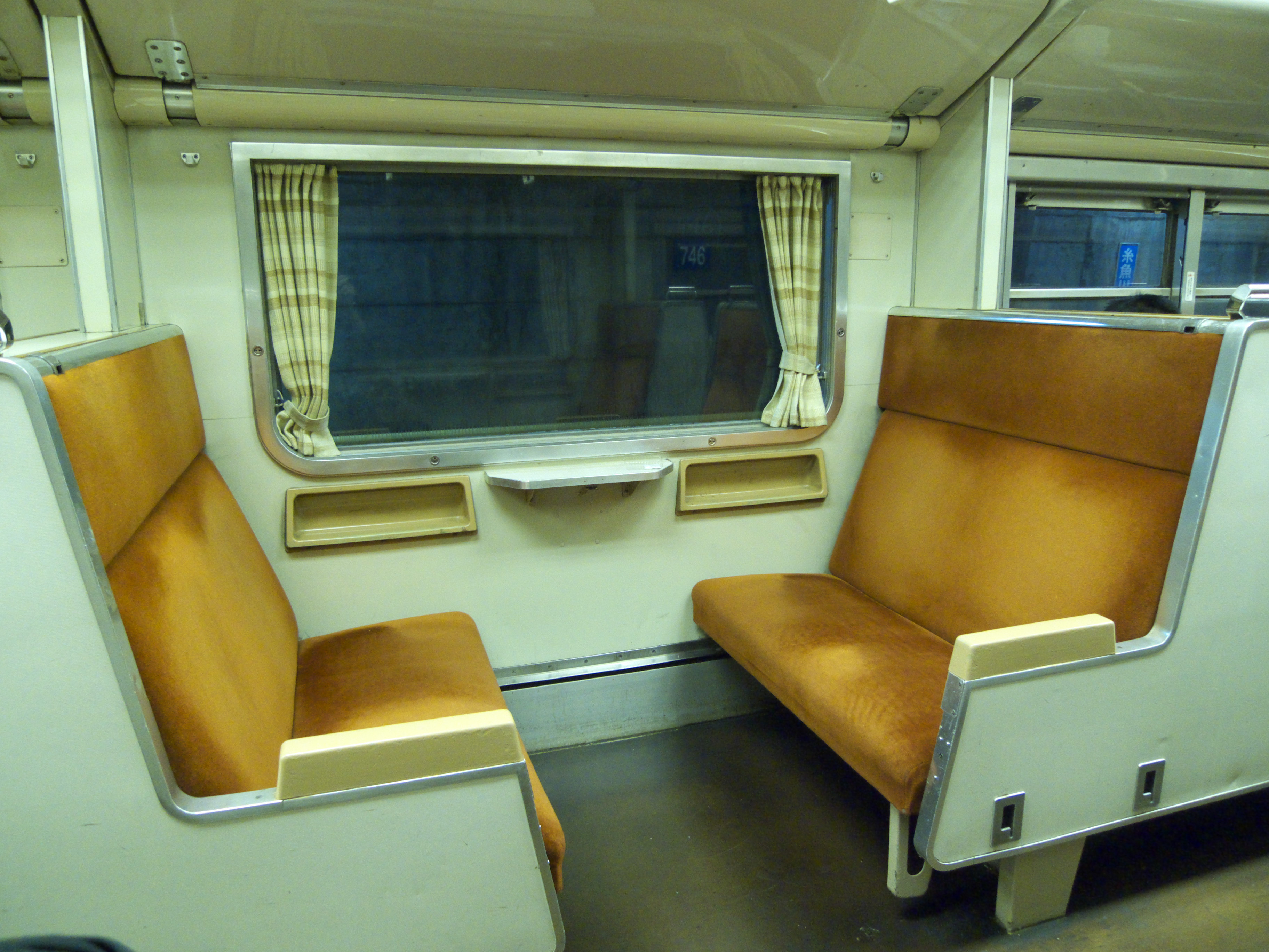 Interior of JNR 419 series EMU operated by JR West